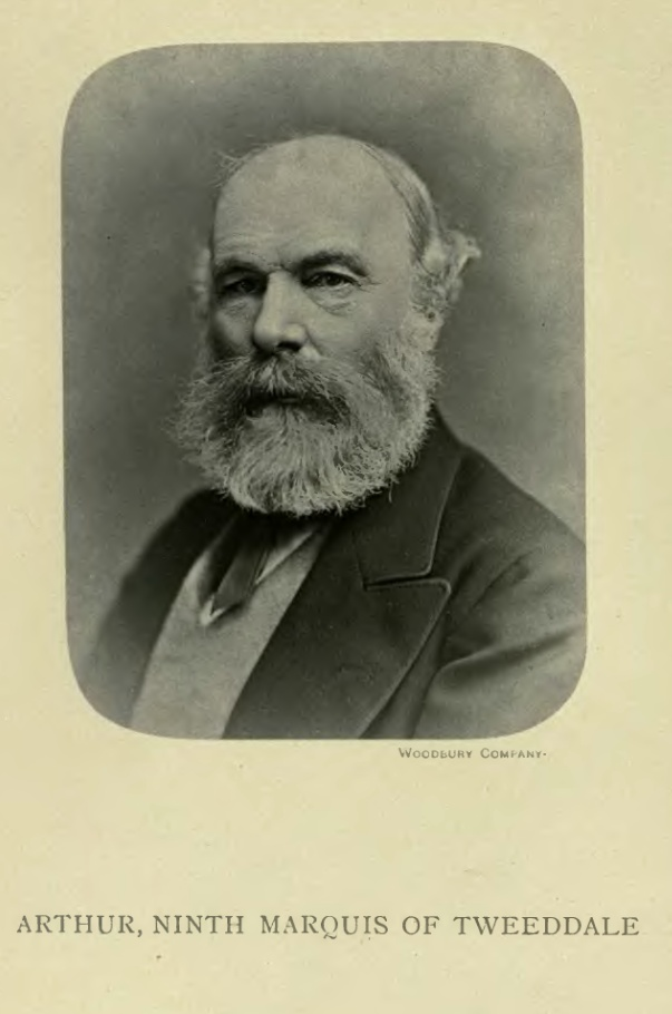 Arthur Hay